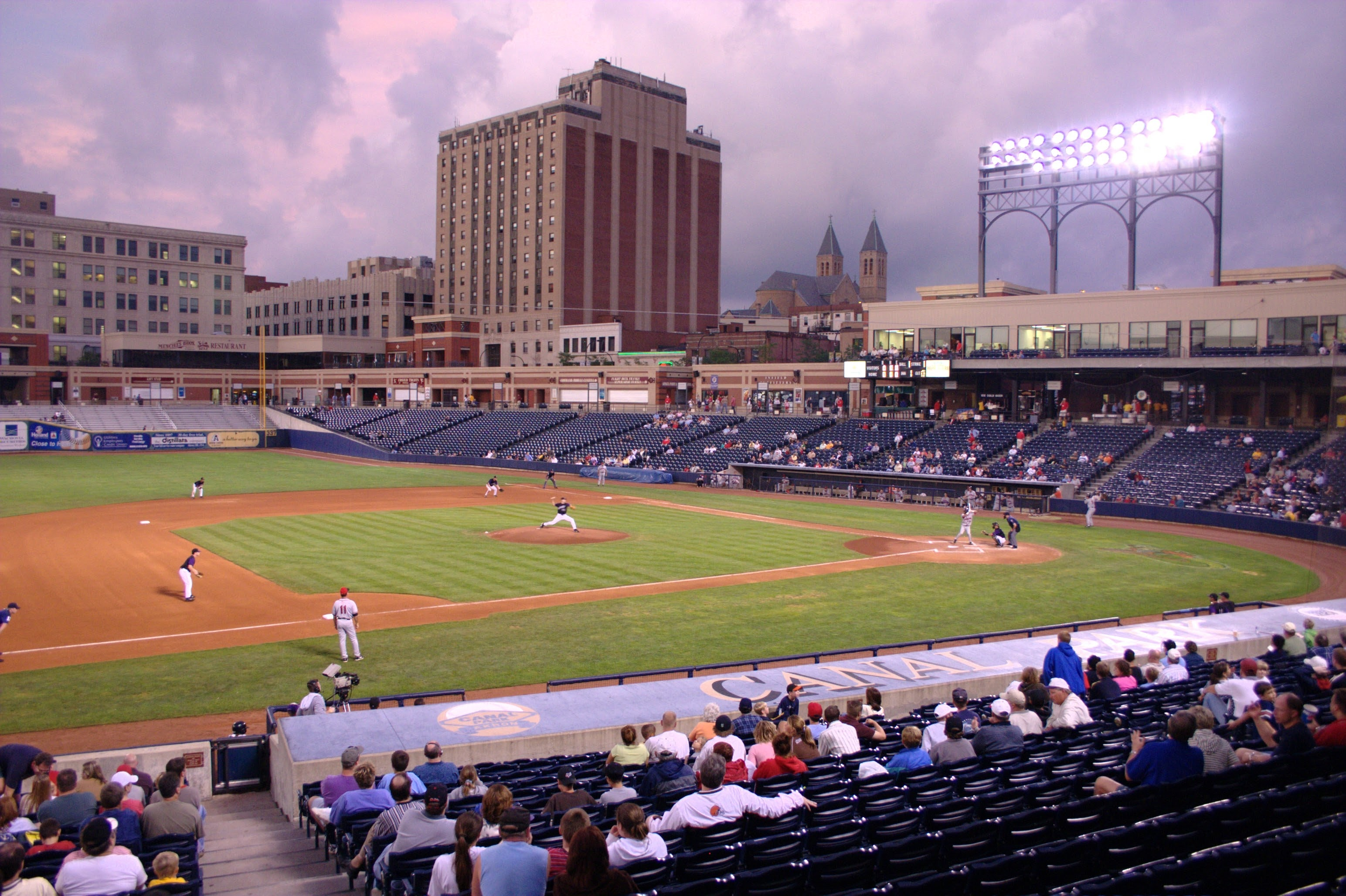 Canal Park, home of the Akron Aeros, AA Eastern League affiliate of the Cleveland Indians in 2005, by Rick Dikeman 22:13, 9 August 2005 . . Rdikeman . . 701×467 (86 KB)